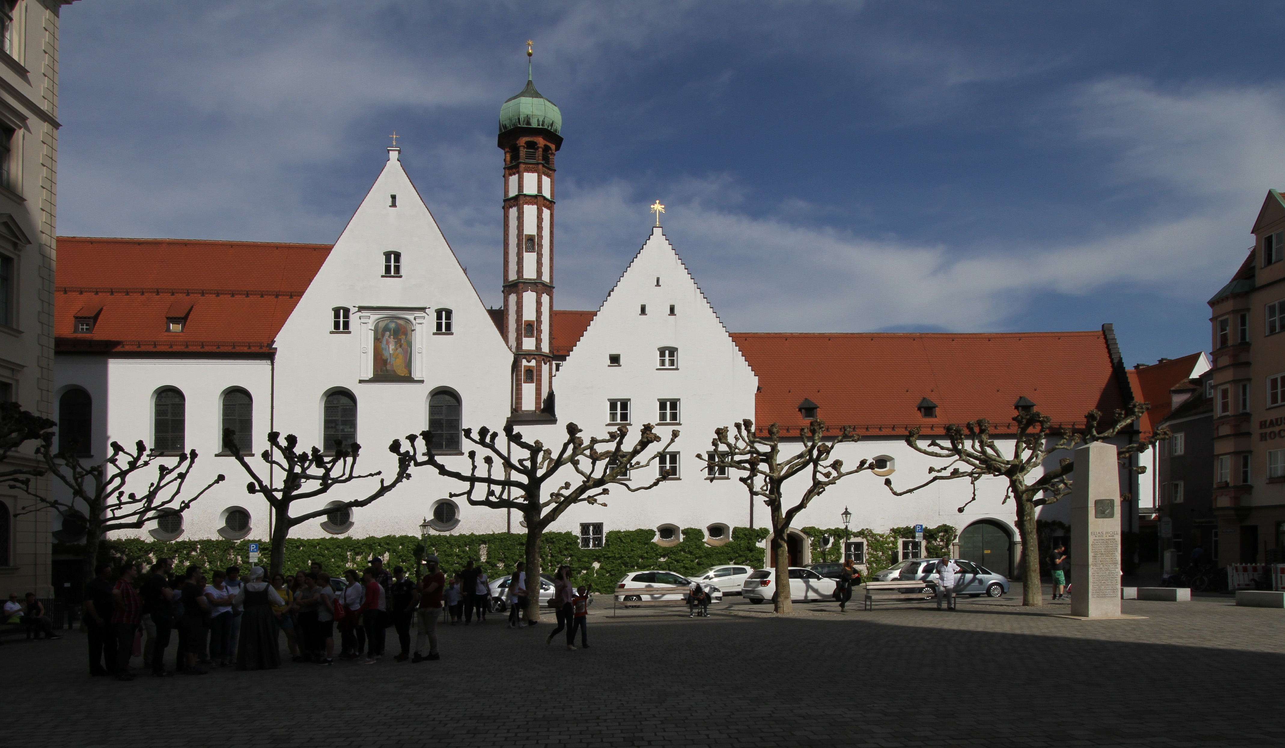 Monastery of the Franciscan nuns (Maria Stern) at Augsburg.